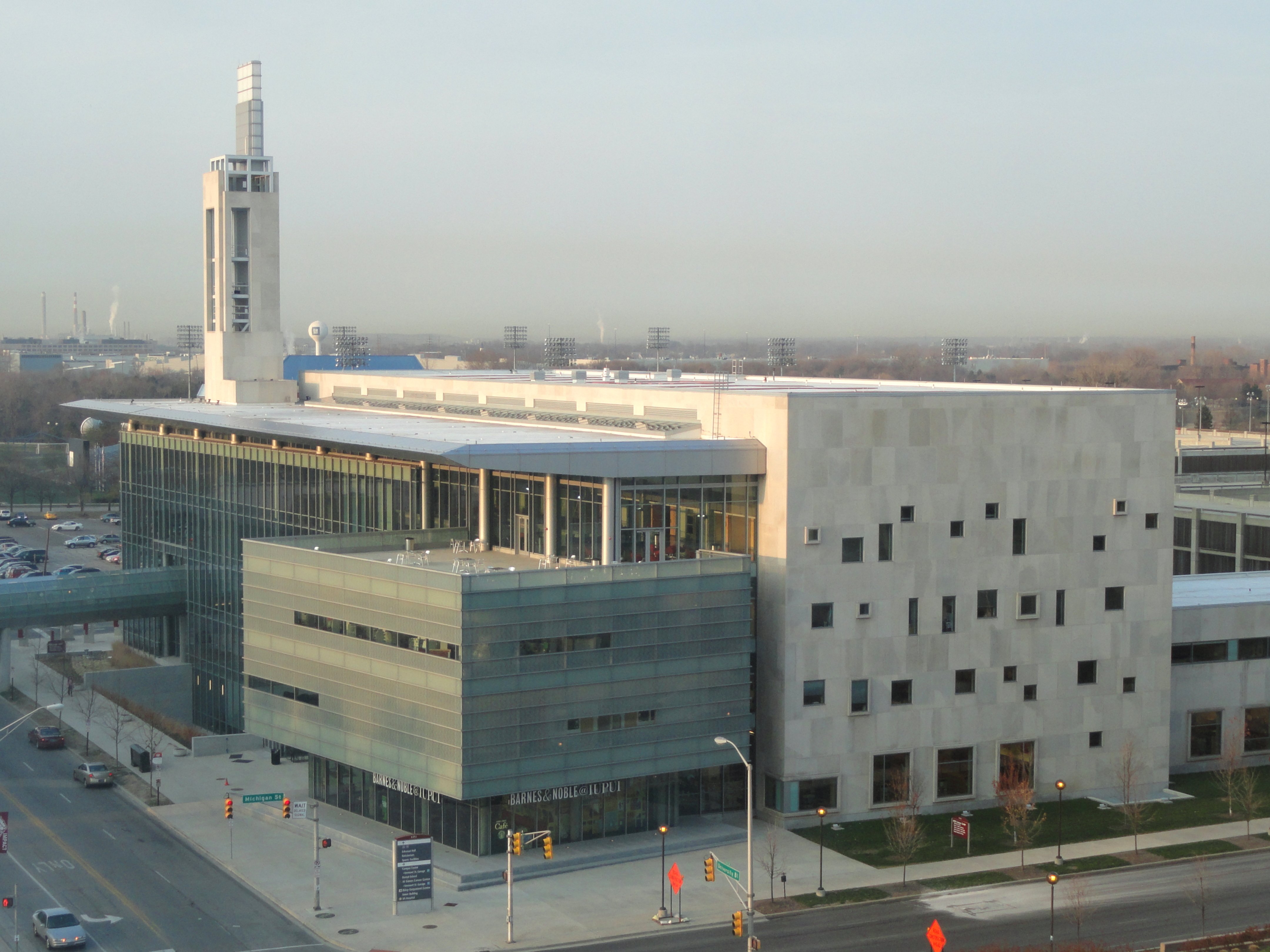 Indiana University-Purdue University Indianapolis (IUPUI) campus, Indianapolis, Indiana, USA.